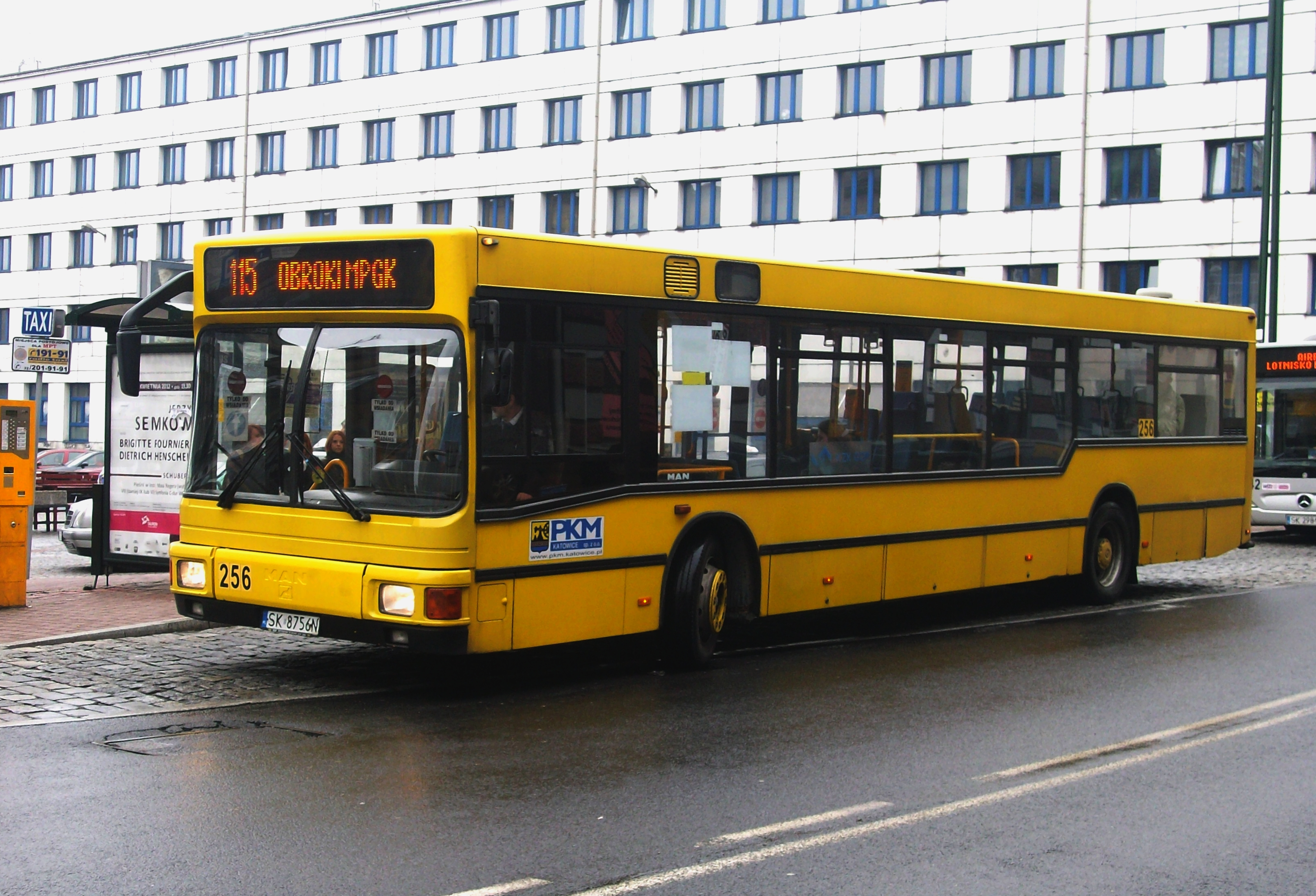 MAN NL 222 bus (#256, reg. SK 8756N) in Katowice, Poland. Built 1998, PKM Katowice operator.